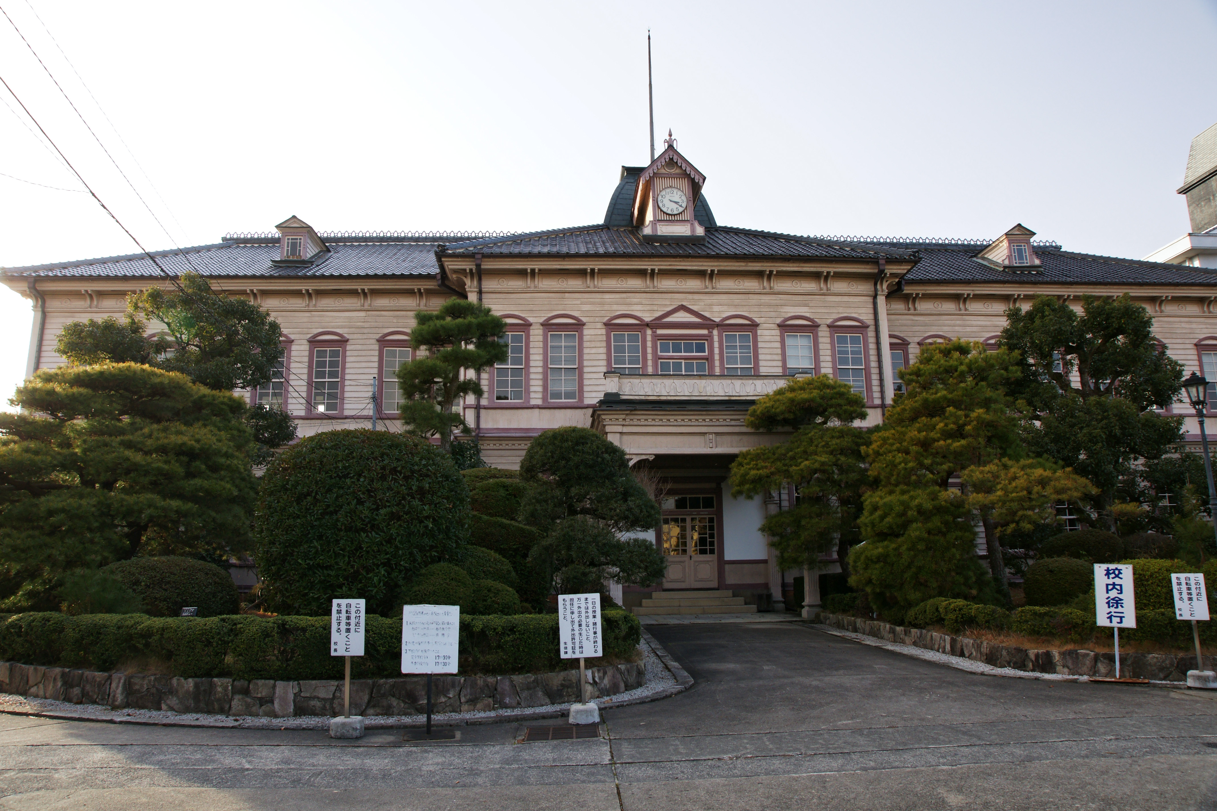 Okayama Prefectural Tsuyama High School in Tsuyama, Okayama prefecture, Japan.